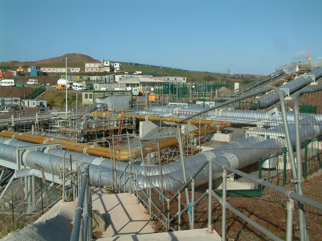 LNG terminal Enormous lagged pipes make landfall. The site is still under construction.